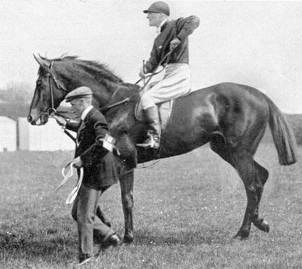 The 1903 Epsom Oaks winner, Our Lassie, with jockey Morny Cannon.